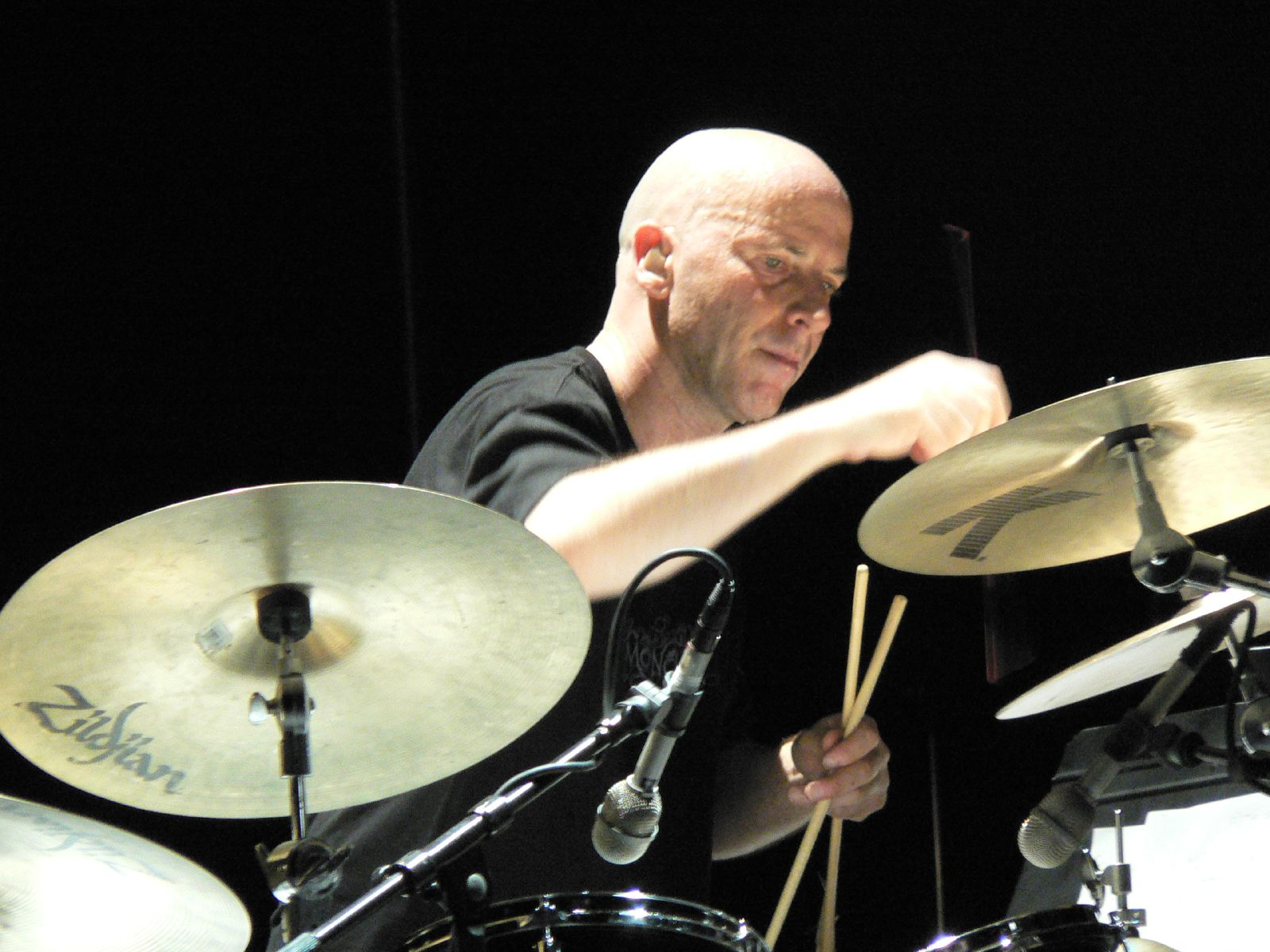 Joey Baron